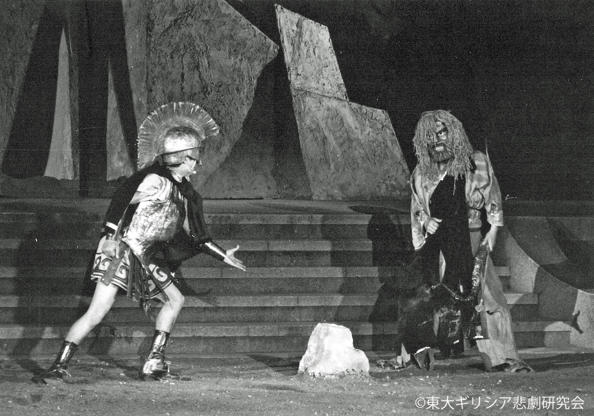 Greek Tragedy 1962 Tokyo University Greek Tragedy institute-c